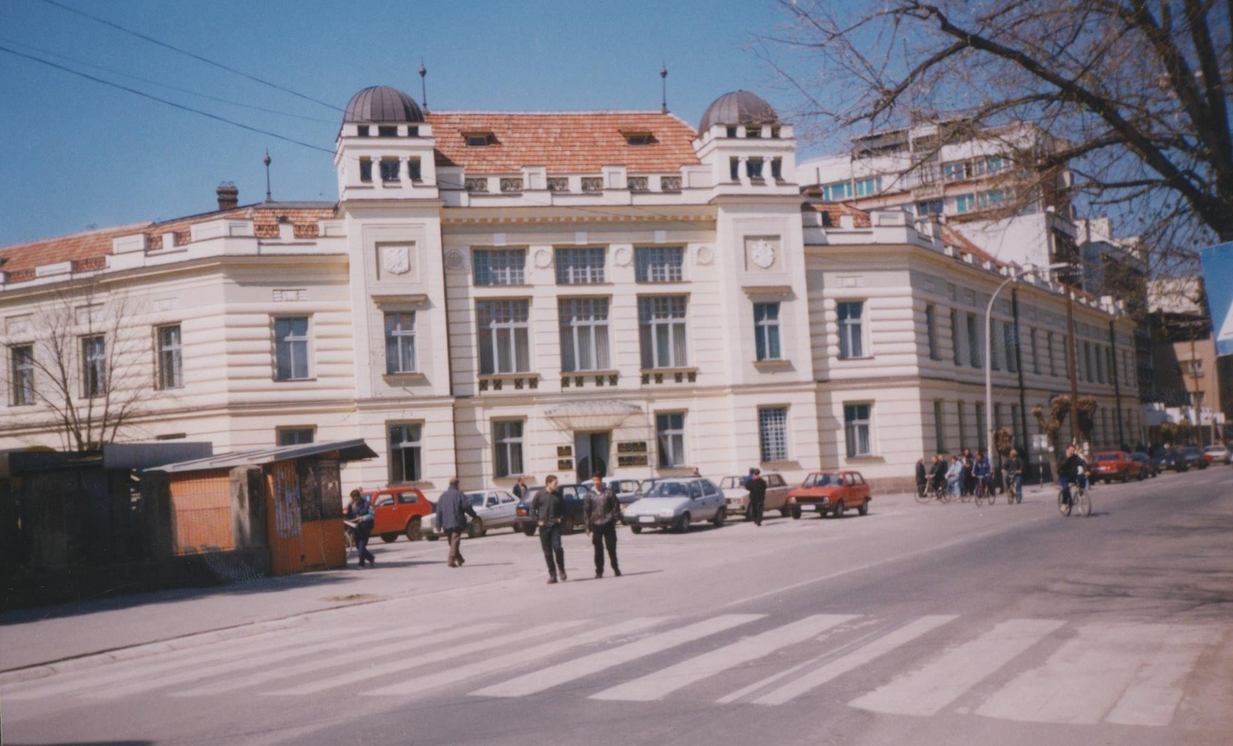 Court house in Pirot